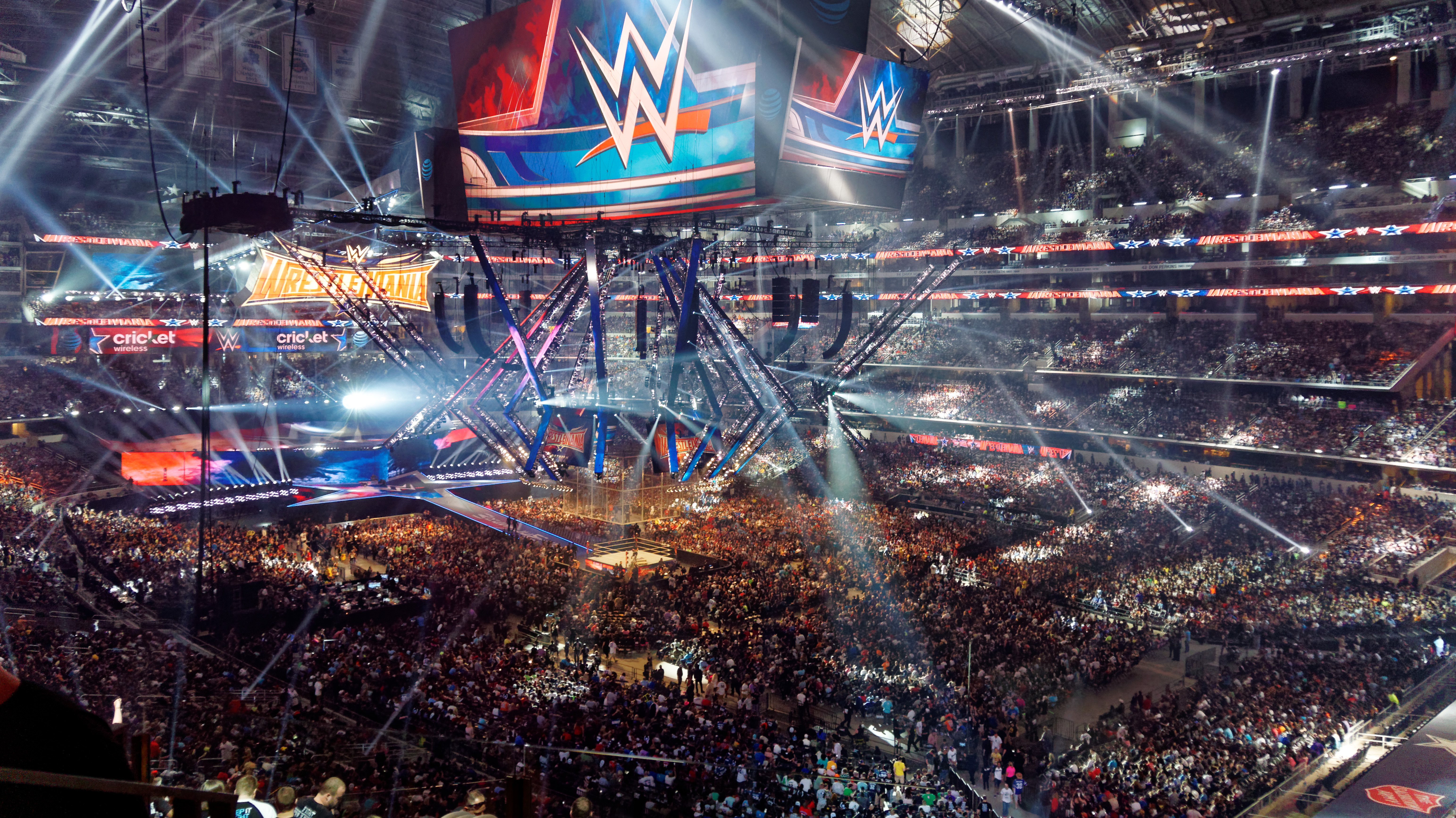 WrestleMania 32 was the thirty-second annual WrestleMania professional wrestling pay-per-view (PPV) event produced by WWE. It took place on April 3, 2016, at AT&T Stadium in Arlington, Texas. Twelve matches were contested on the card (with three matches occurring on the WrestleMania Kickoff pre-show - two airing live on the USA Network, which televised the second hour of the pre-show). The Undertaker def. (pin) Shane McMahon (in 30:02) Type of match : 'Hell In A Cell' Rating : **1/2